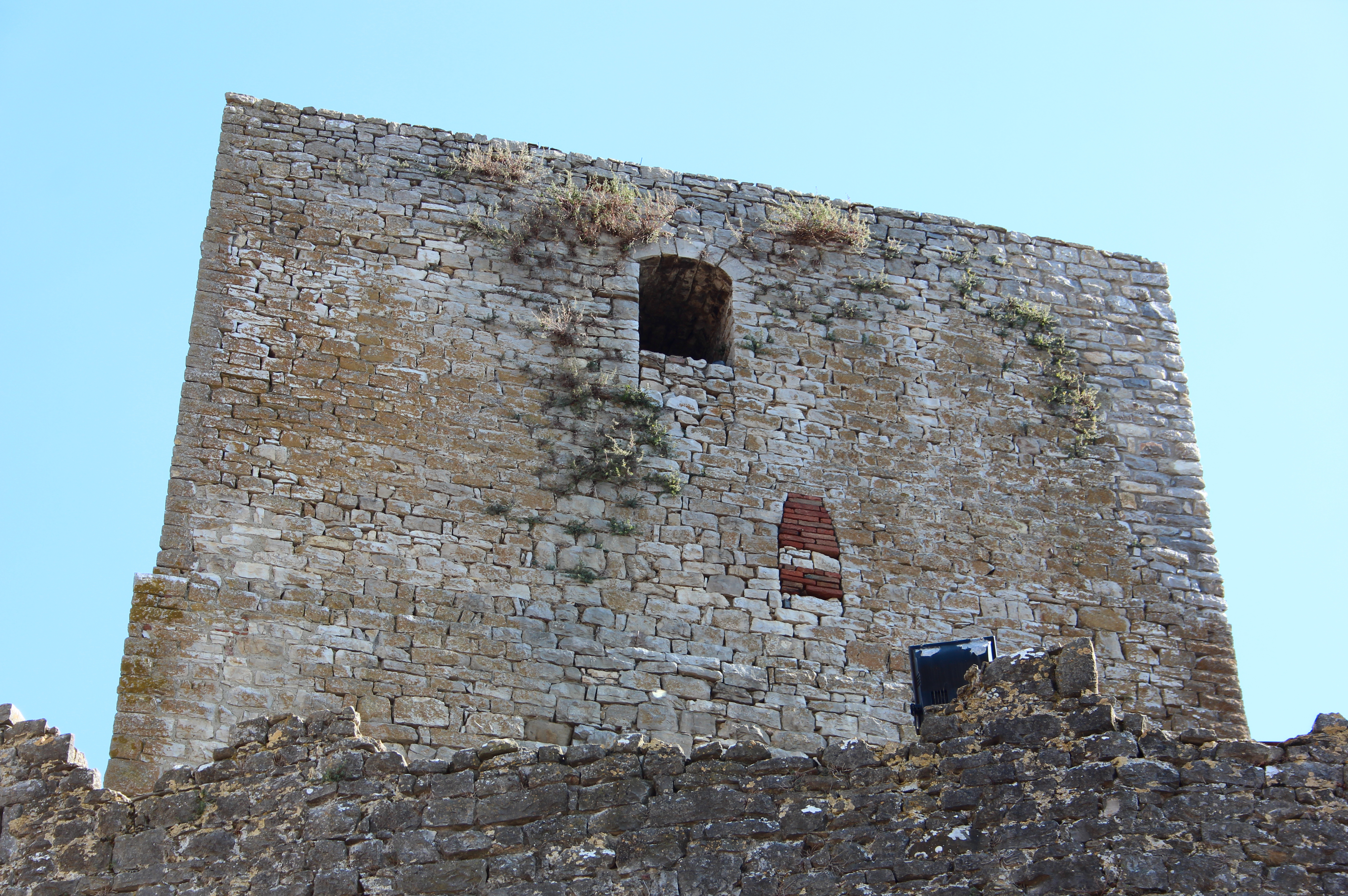 Castle Castello di San Savino, San Savino, hamlet of Magione, Province of Perugia, Umbria, Italy